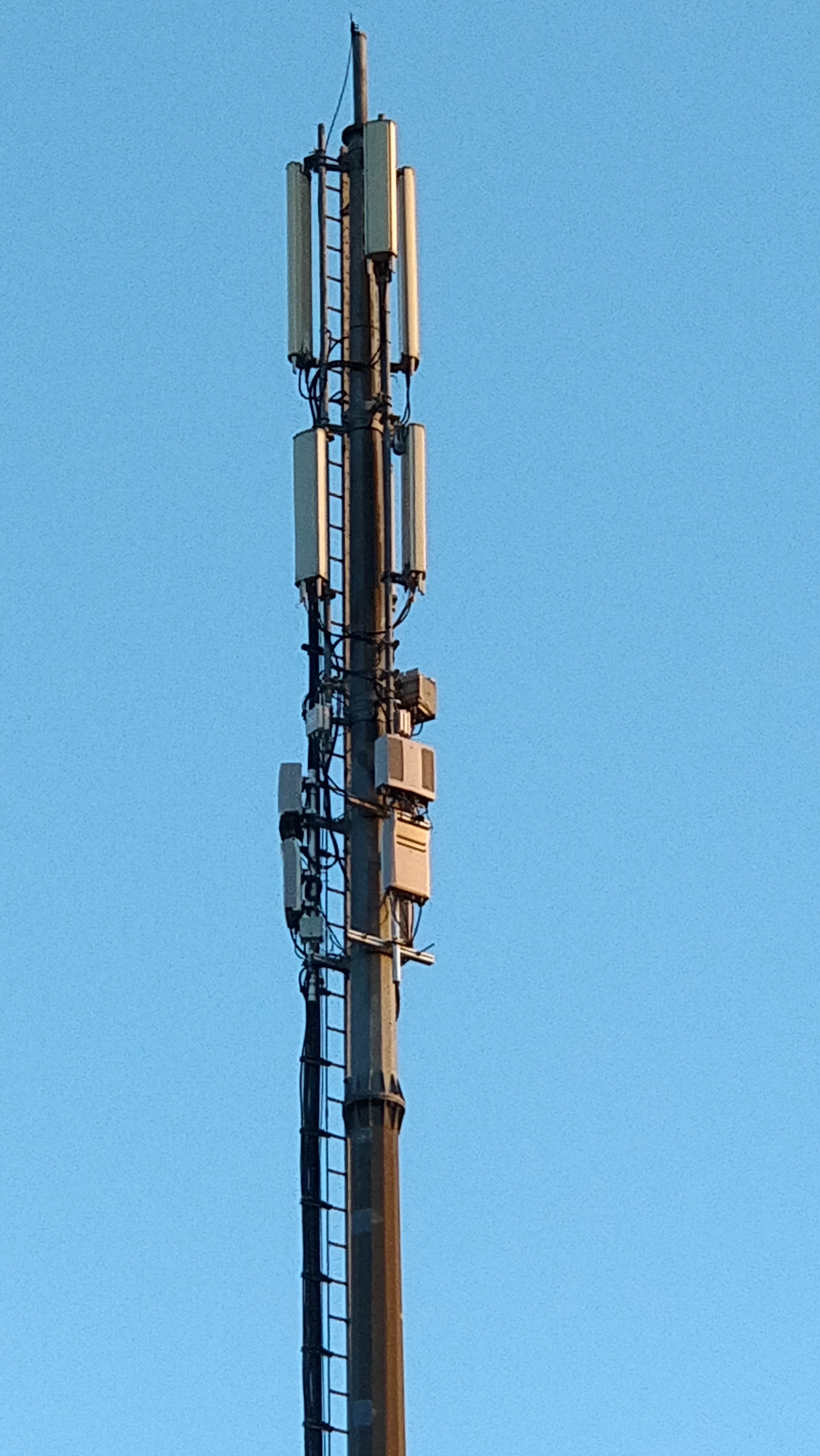 Cellular radio tower or mobile antenna in Vantaa City, Finland